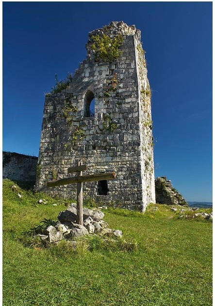 ruins of Roman tower in Anacopia (now New Athos, Abkhazia)